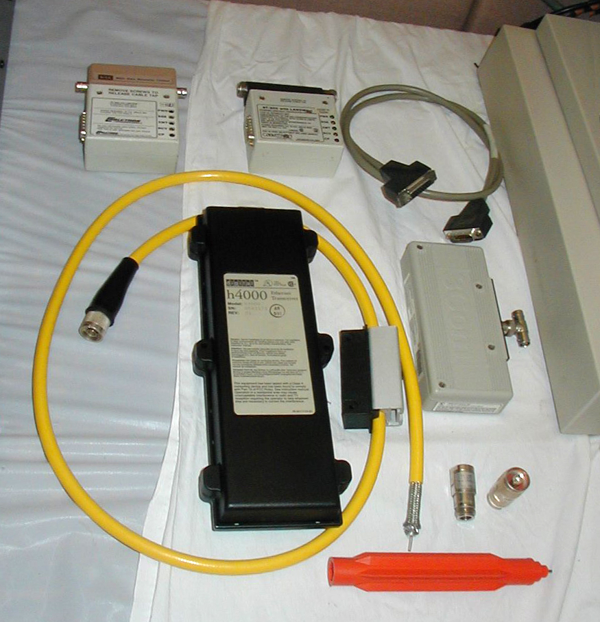 10BASE-5 Ethernet Transceivers. cables, and orange cable tapping tool Photo taken by Robert Harker (me), October 2003, Robert.harker (talk) 20:19, 4 May 2008 (UTC) 10BASE5 Ethernet equipment. Clockwise from top-left: A late-model transceiver with an in-line 10BASE2 adapter, a similar model transceiver with a 10BASE5 adapter, an AUI cable, a different style of transceiver with 10BASE2 T-connector, two 10BASE5 end fittings, an orange "vampire tap" installation tool (which includes a specialized drill bit at one end and a socket wrench at the other), and an early model 10BASE5 transceiver (h4000) manufactured by DEC. The short length of yellow 10BASE5 cable has one end terminated and the other end prepared to have a termination fitting installed; the half-black, half-grey rectangular object through which the cable passes is an installed vampire tap.